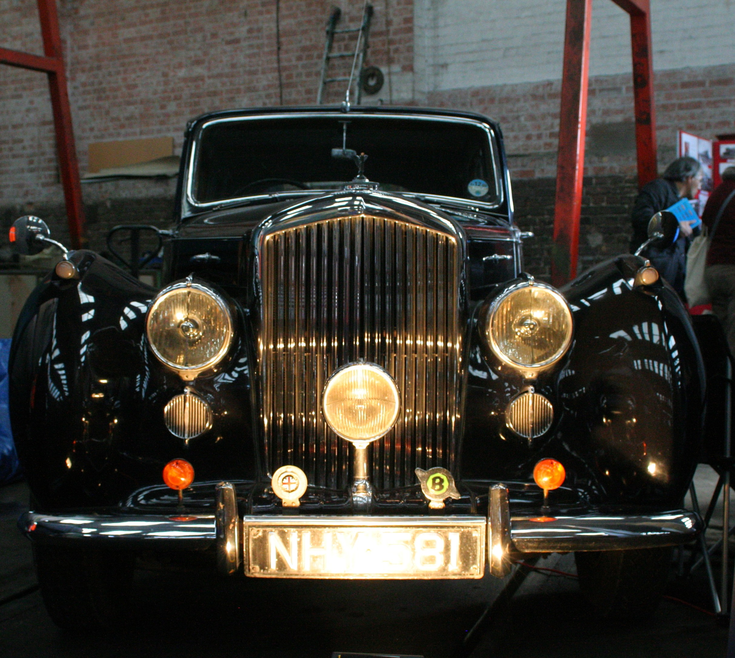 Ivo Peters' Bentley(DVLA) first registered 15 March 1951, 4257 cc